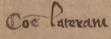 Laterano 1260